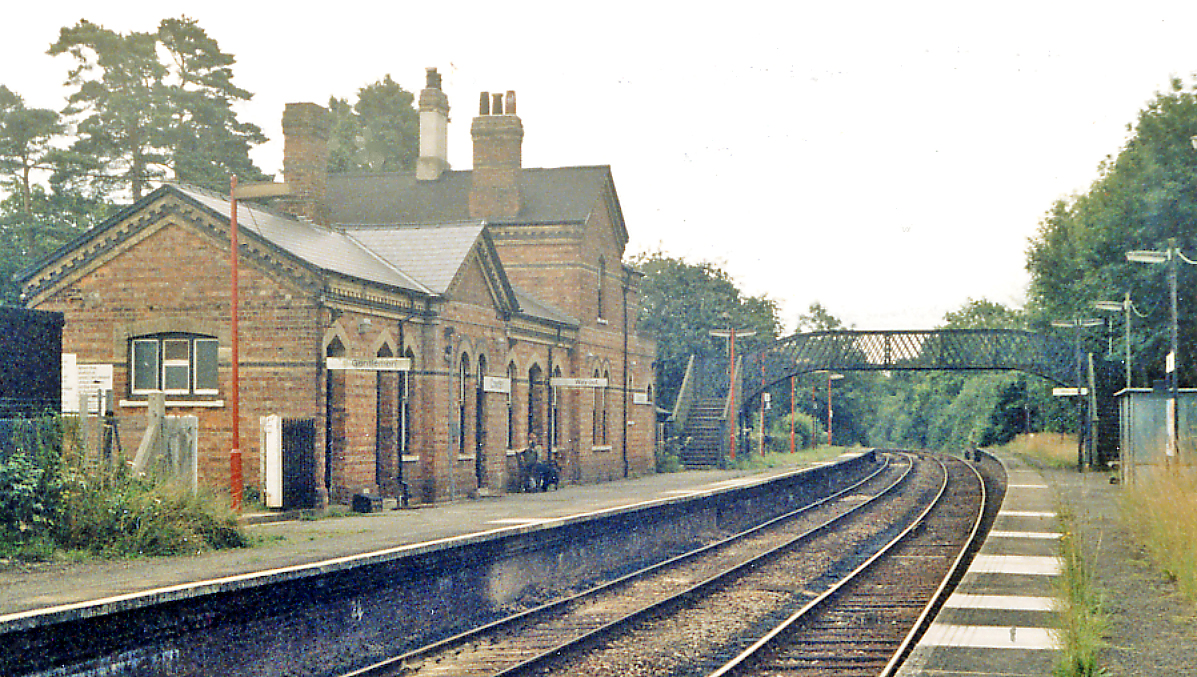 Cowden station, 1987. View NW, towards Oxted and London: ex-London, Brighton & South Coast Railway, London - Oxted - Ashurst - Tunbridge Wells West/Uckfield - Lewes - Brighton/Eridge - Eastbourne lines. Since 8/7/85, when the Tunbridge Wells West line was closed, trains have run through here only to Uckfield